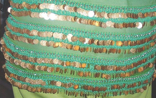 Coin sequins on a hip-cloth